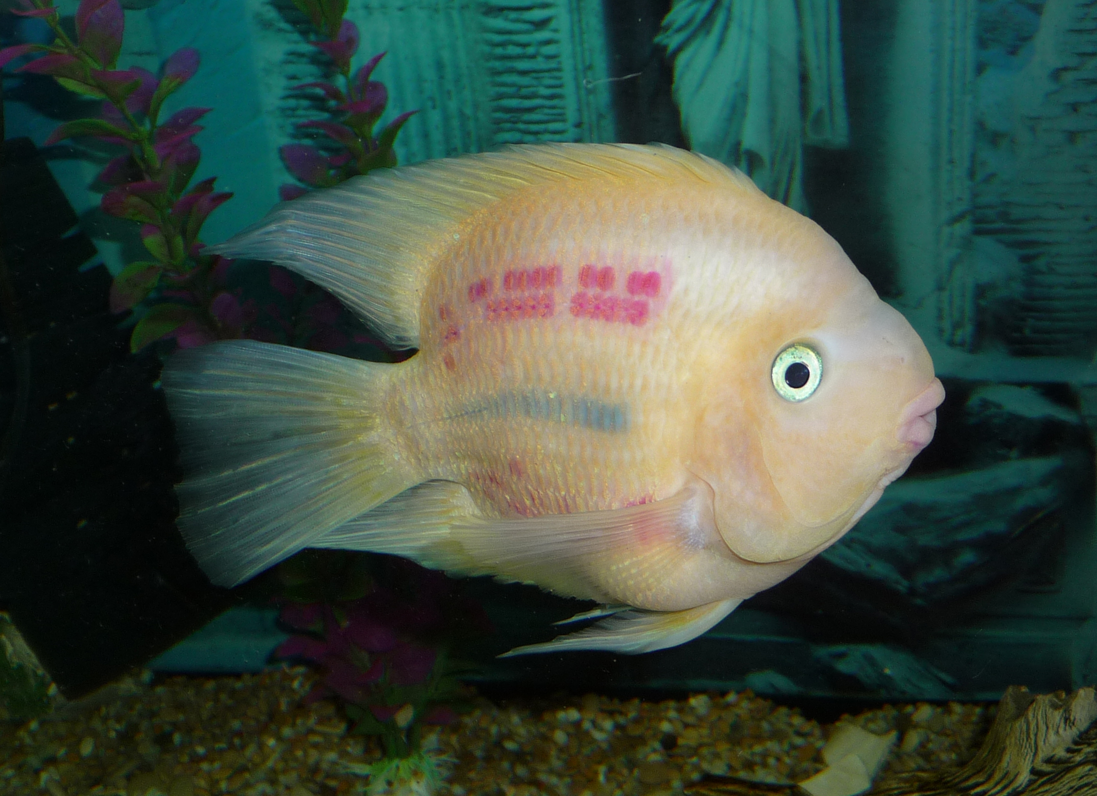 Blood parrot (also known as bloody parrot and blood parrotfish). No binomial nomenclature, it is a hybrid cichlid.